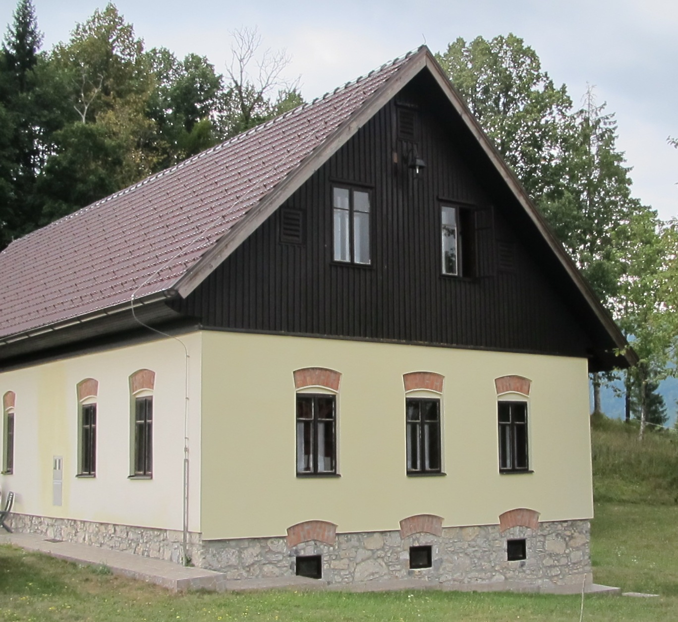 The house where lawyer, geographer, and cartographer Peter Kozler (1824–1879) was born in Koče, Municipality of Kočevje, Slovenia